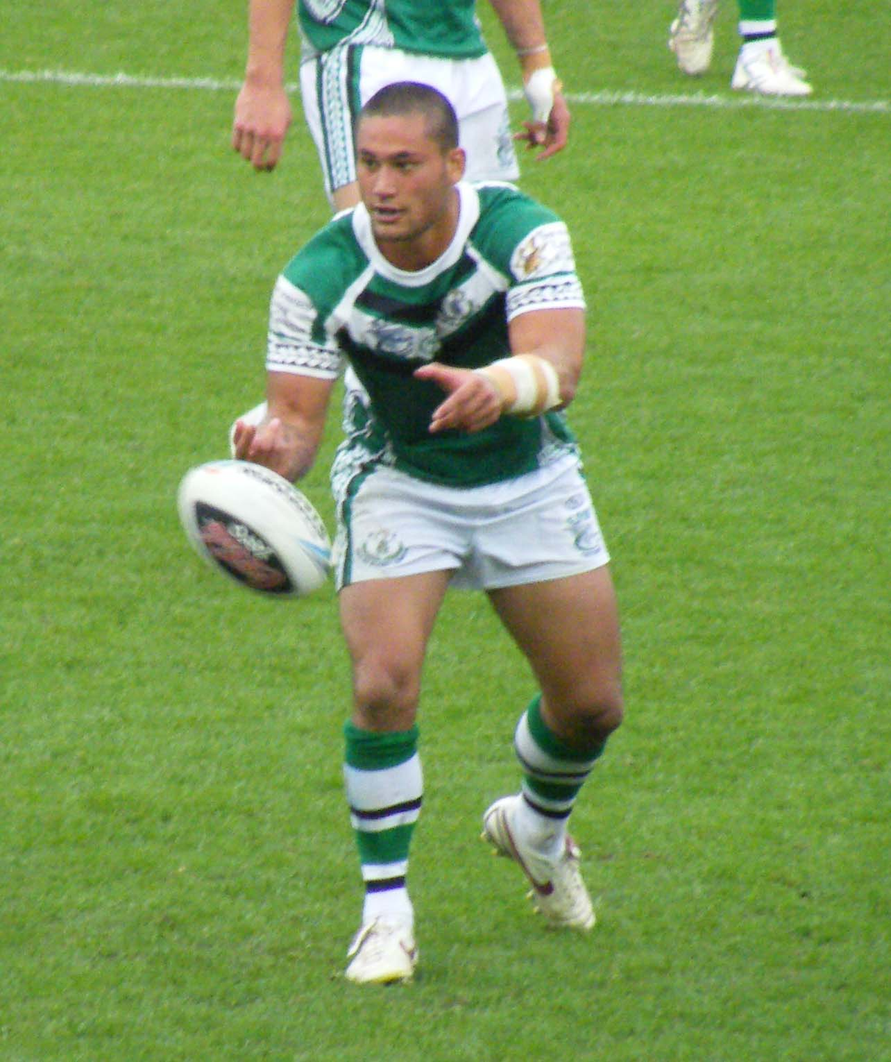 Maori prop Weller Hauraki. RLWC 2008 - Aboriginal Dreamtime Team versus New Zealand Maori.